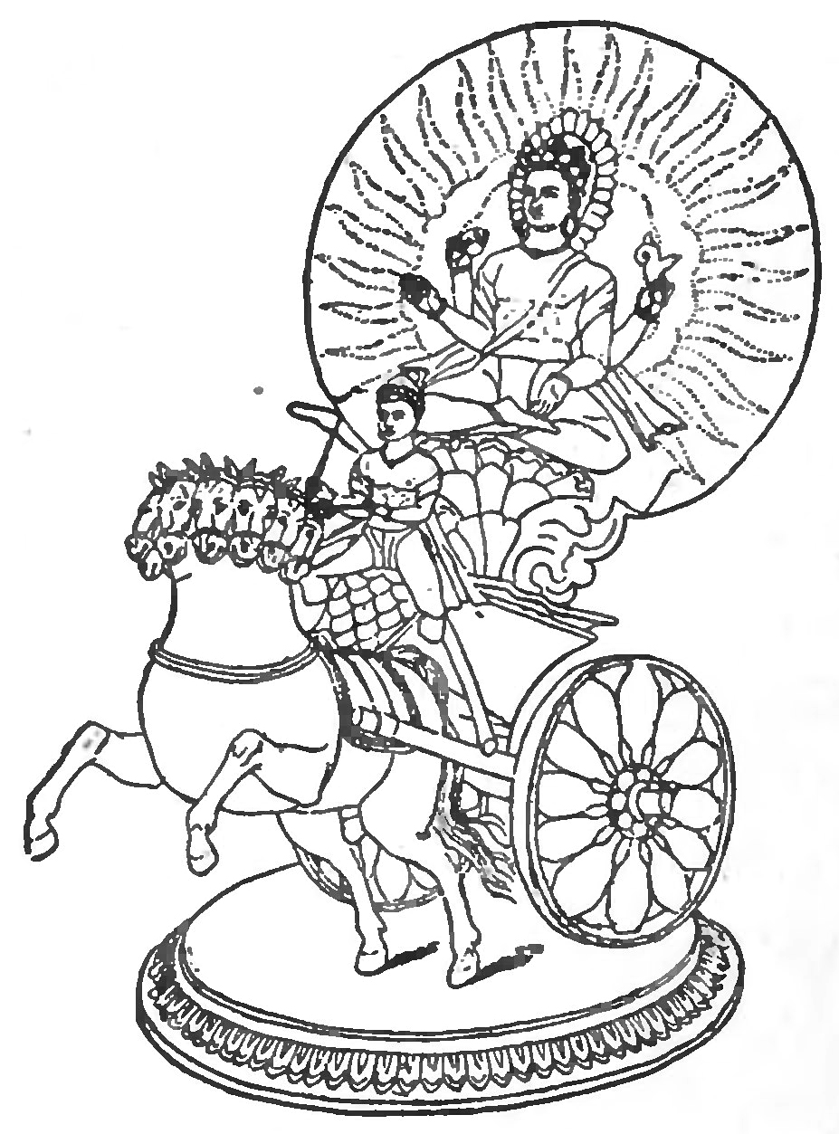 History of India (1906) - Vol 1 Author Romesh Chunder Dutt]Editor A.V. Willians JacksonPublisher The Grolier SocietyTitle History of India (1906) - Vol 1]Volume 1Language EnglishPublication date 1906publication_date QS:P577,+1906-00-00T00:00:00Z/9Place of publication London